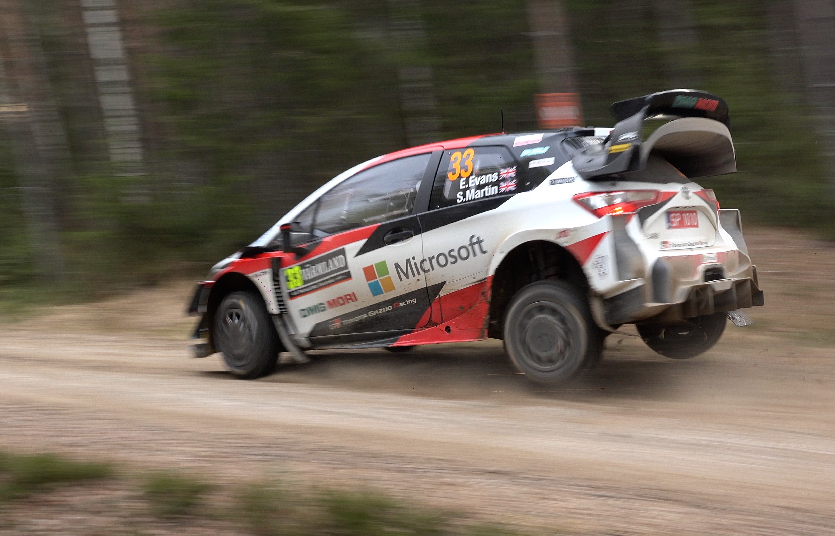 Evans at Rally Sweden 2020.